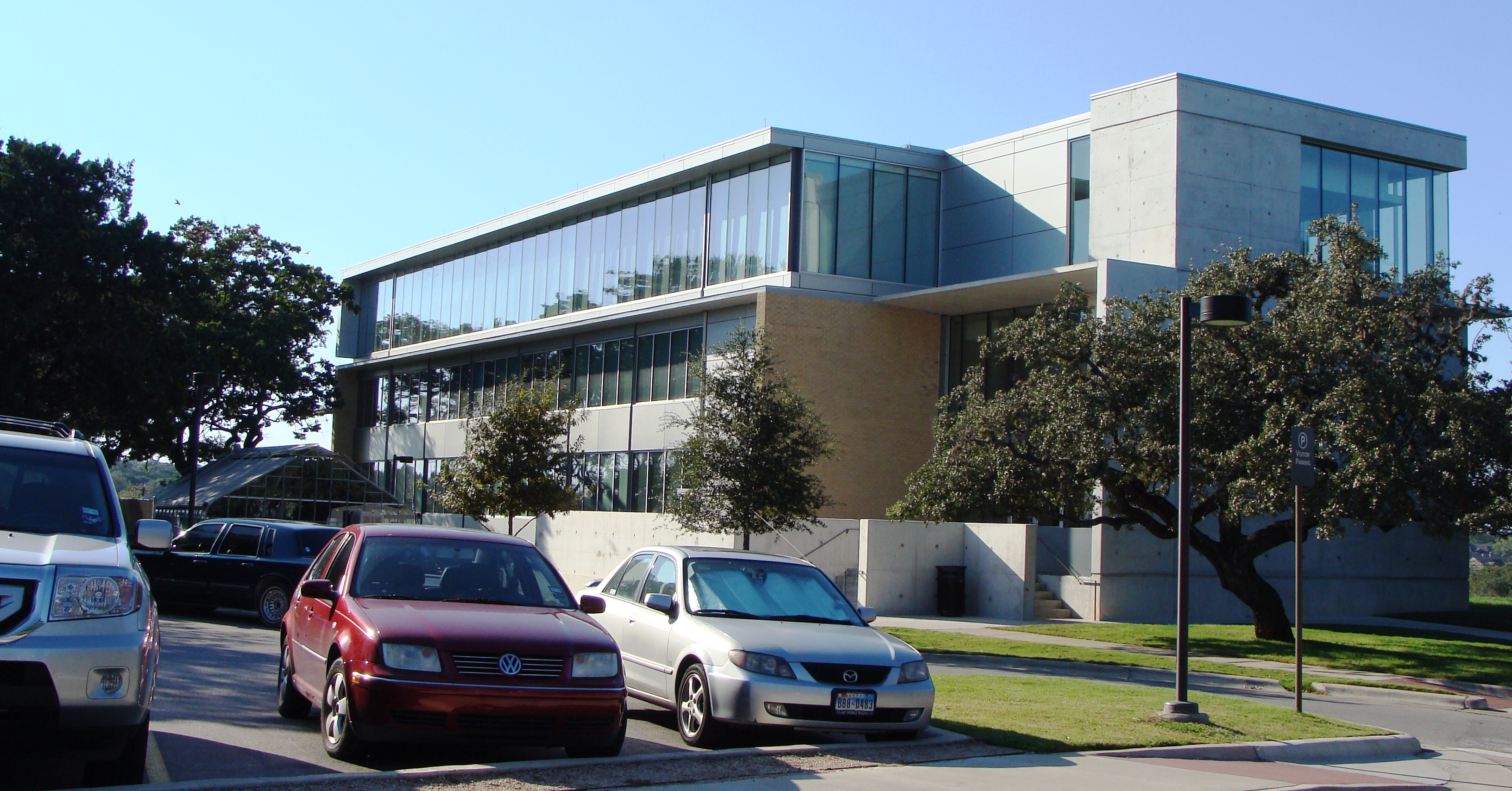 Fleck Hall. St Edwards University, Texas.